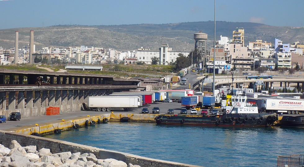 The city port of Drapetsona in Greece.